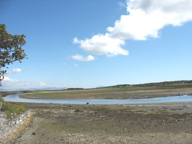 View south from the Four Mile Bridge at low tide.